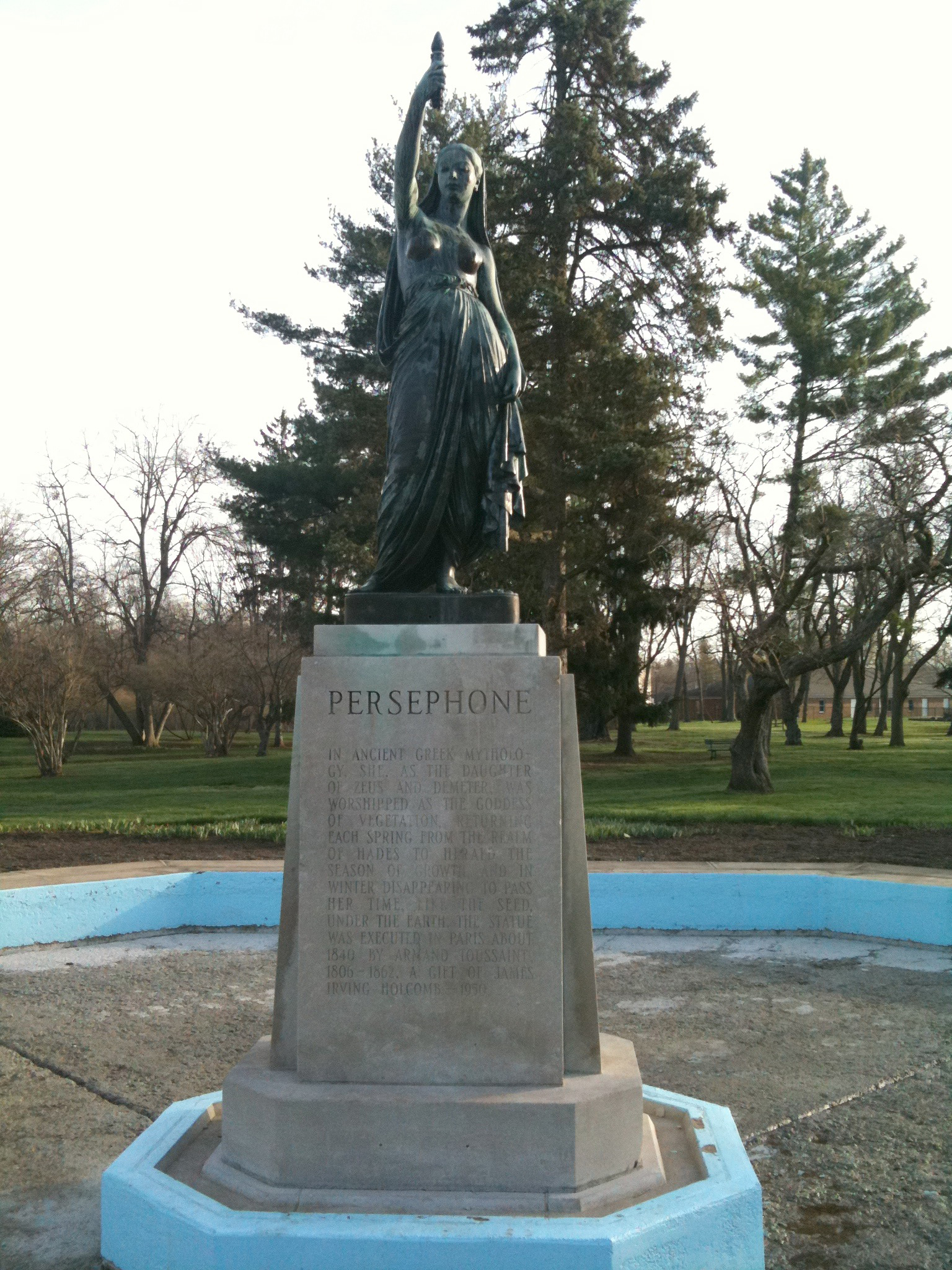 Standing female figure set on a limestone pedestal base in the center of a concrete octagonal pool. The figure of Persephone is draped from the waist down. Her proper right hand is raised and holds a lit torch of bundled faggots. Save Outdoor Sculpture, Indiana survey, 1993. SOS! Link